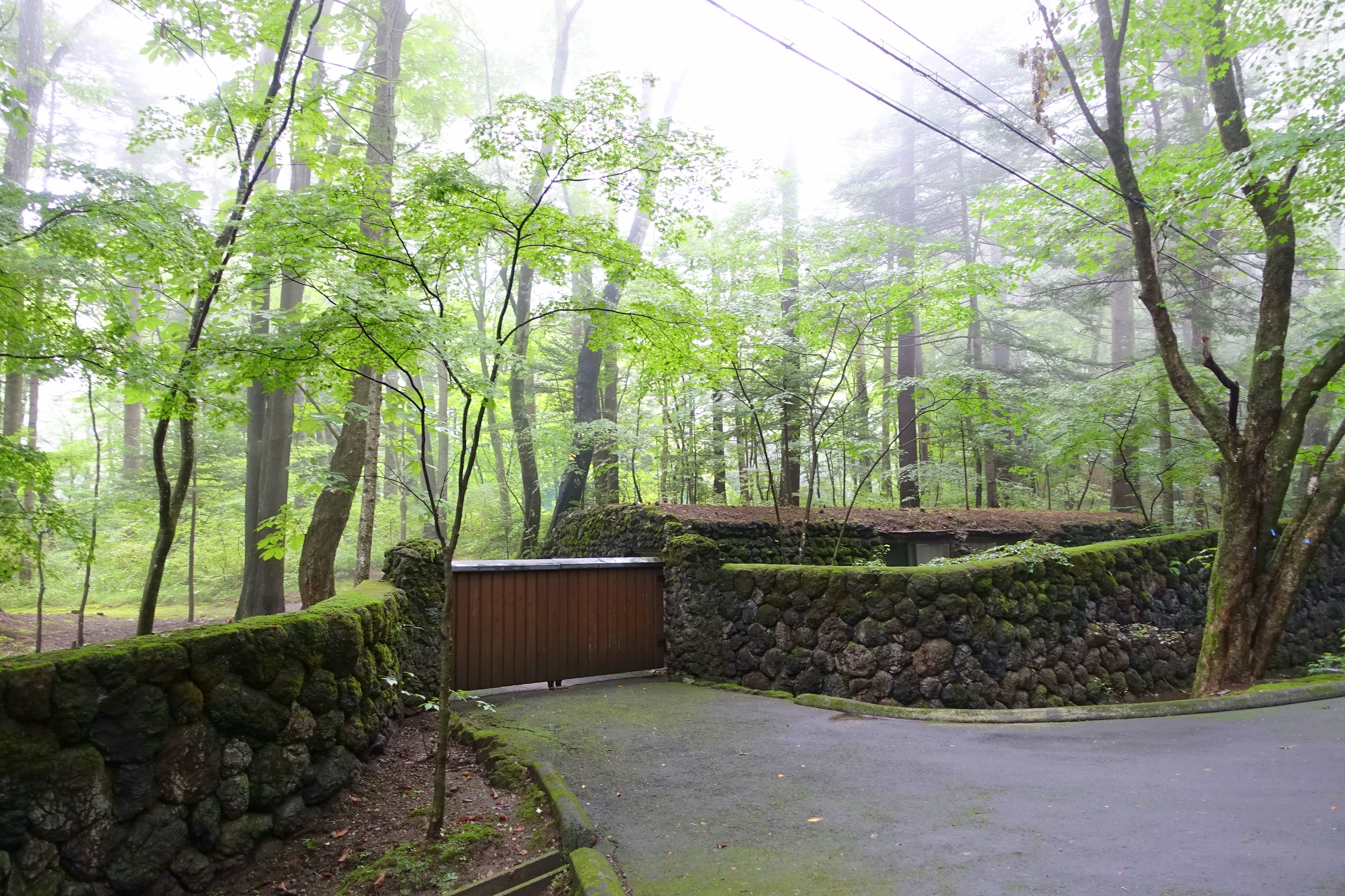 Road in Karuizawa, Nagano, Japan.